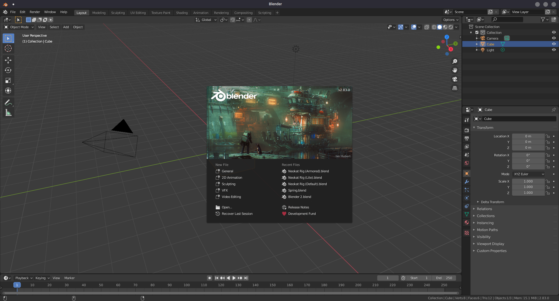 Blender 2.83.0 running on the Linux operating system.